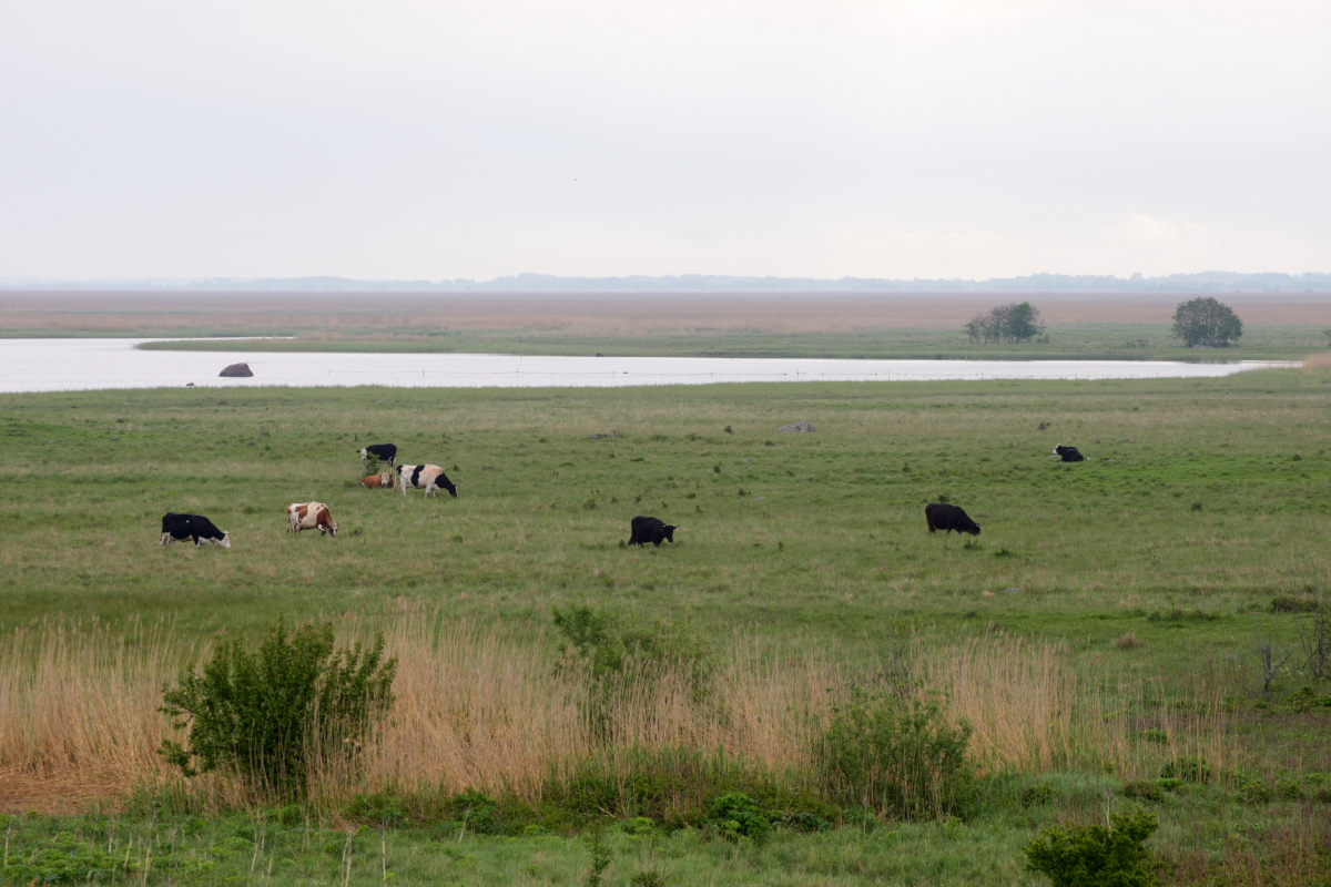 Matsalu National Park, Lääne County, Estonia